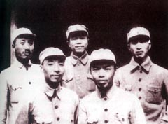 A group photograph including Nie Fengzhi taken during the Second Sino-Japanese War. Caption: "A group photo of Nie Fengzhi(L3) and his comrades-in-arms during the Anti-Japanese War."